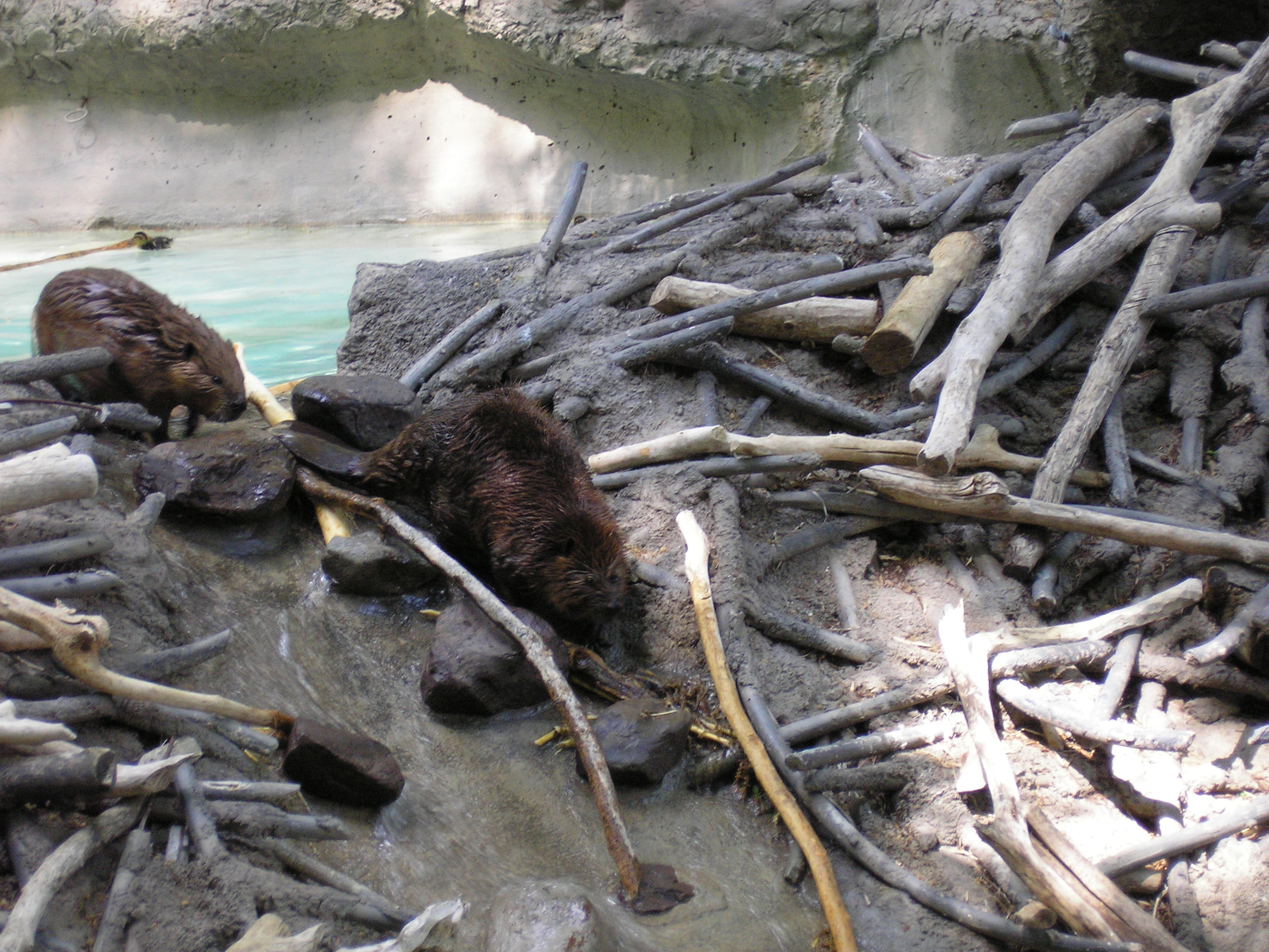 American Beavers climbing on an artificial dam at the National Zoo in Washington, D.C.